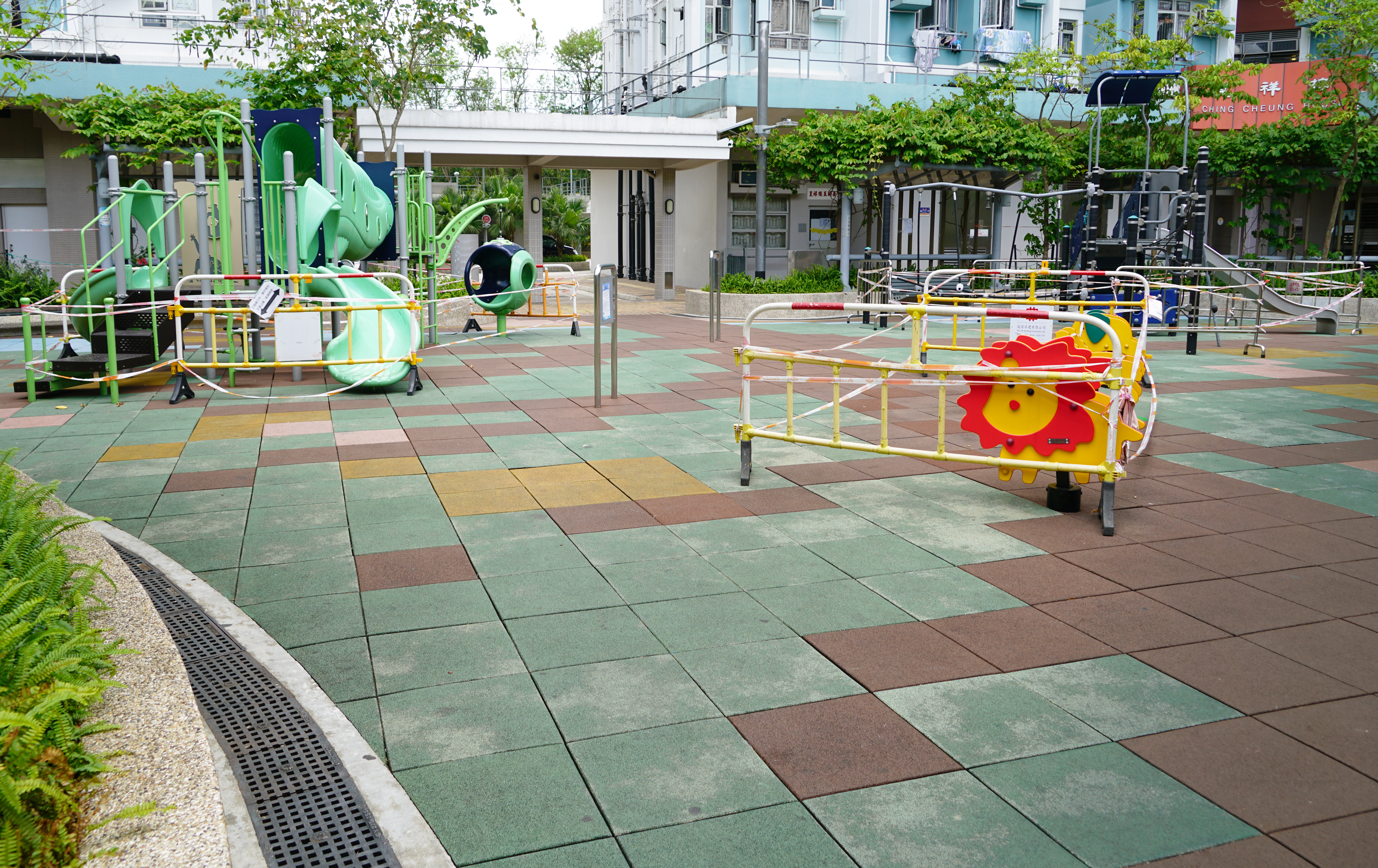 Cheung Lung Wai Estate, Hong Kong.